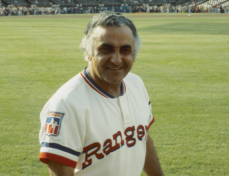 May 1977 photograph of Texas Rangers manager Frank Lucchesi, taken at Arlington Stadium prior to a game against the Toronto Blue Jays. This image has been cropped slightly from the original.